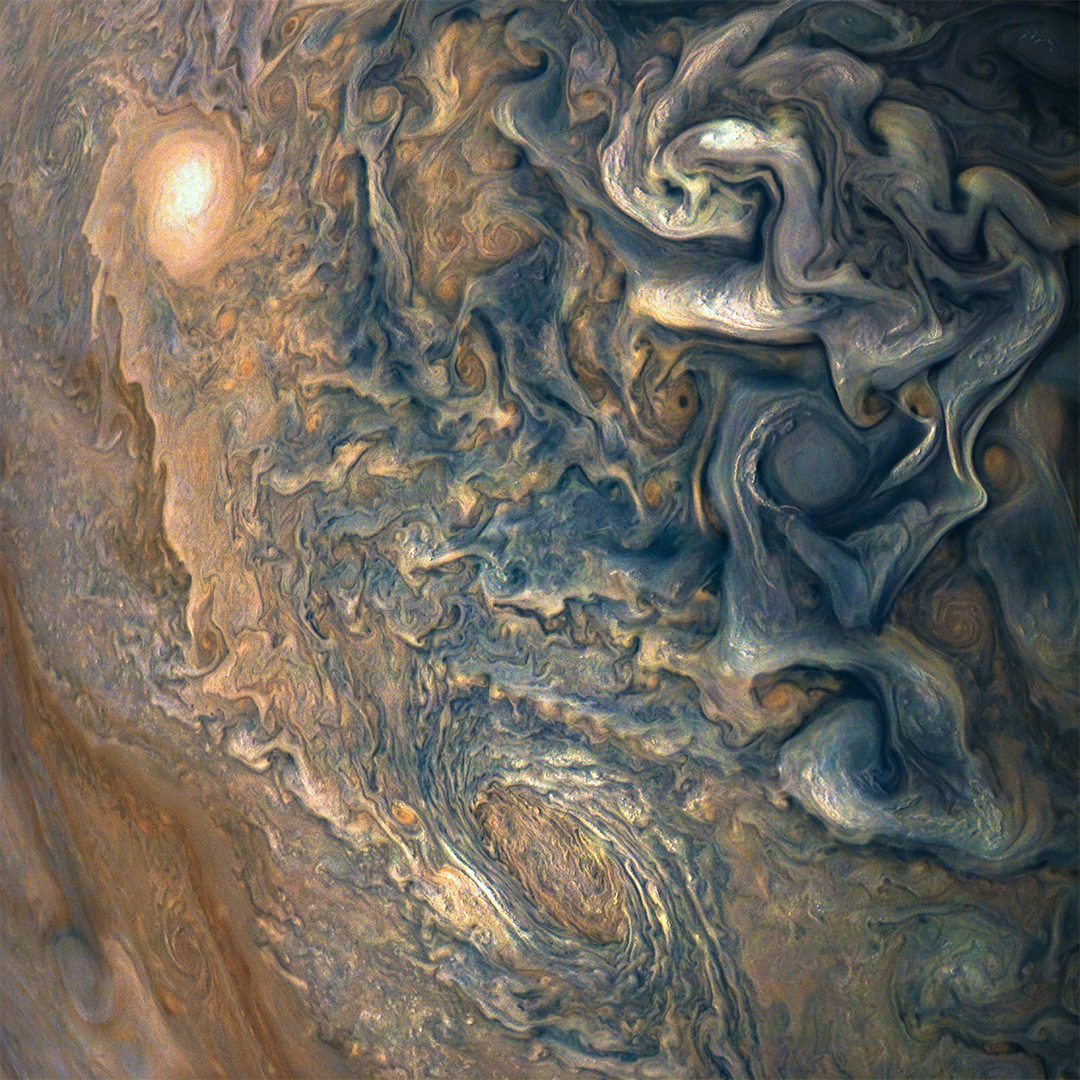 PIA21973: High Above Jupiter's Clouds NASA's Juno spacecraft was a little more than one Earth diameter from Jupiter when it captured this mind-bending, color-enhanced view of the planet's tumultuous atmosphere. Jupiter completely fills the image, with only a hint of the terminator (where daylight fades to night) in the upper right corner, and no visible limb (the curved edge of the planet). Juno took this image of colorful, turbulent clouds in Jupiter's northern hemisphere on Dec. 16, 2017 at 9:43 a.m. PST (12:43 p.m. EST) from 8,292 miles (13,345 kilometers) above the tops of Jupiter's clouds, at a latitude of 48.9 degrees. The spatial scale in this image is 5.8 miles/pixel (9.3 kilometers/pixel).. Citizen scientists Gerald Eichstädt and Seán Doran processed this image using data from the JunoCam imager. JunoCam's raw images are available at for the public to peruse and process into image products.